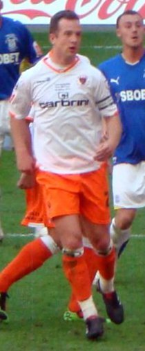 22/05/10 Cardiff V Blackpool, Championship Final, Wembley, England